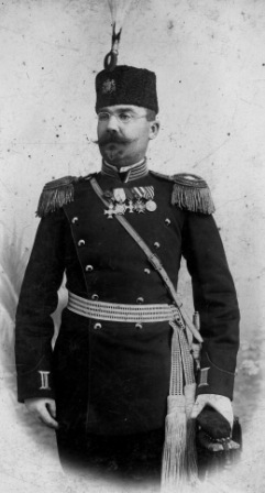 general Simeon Karaivanov